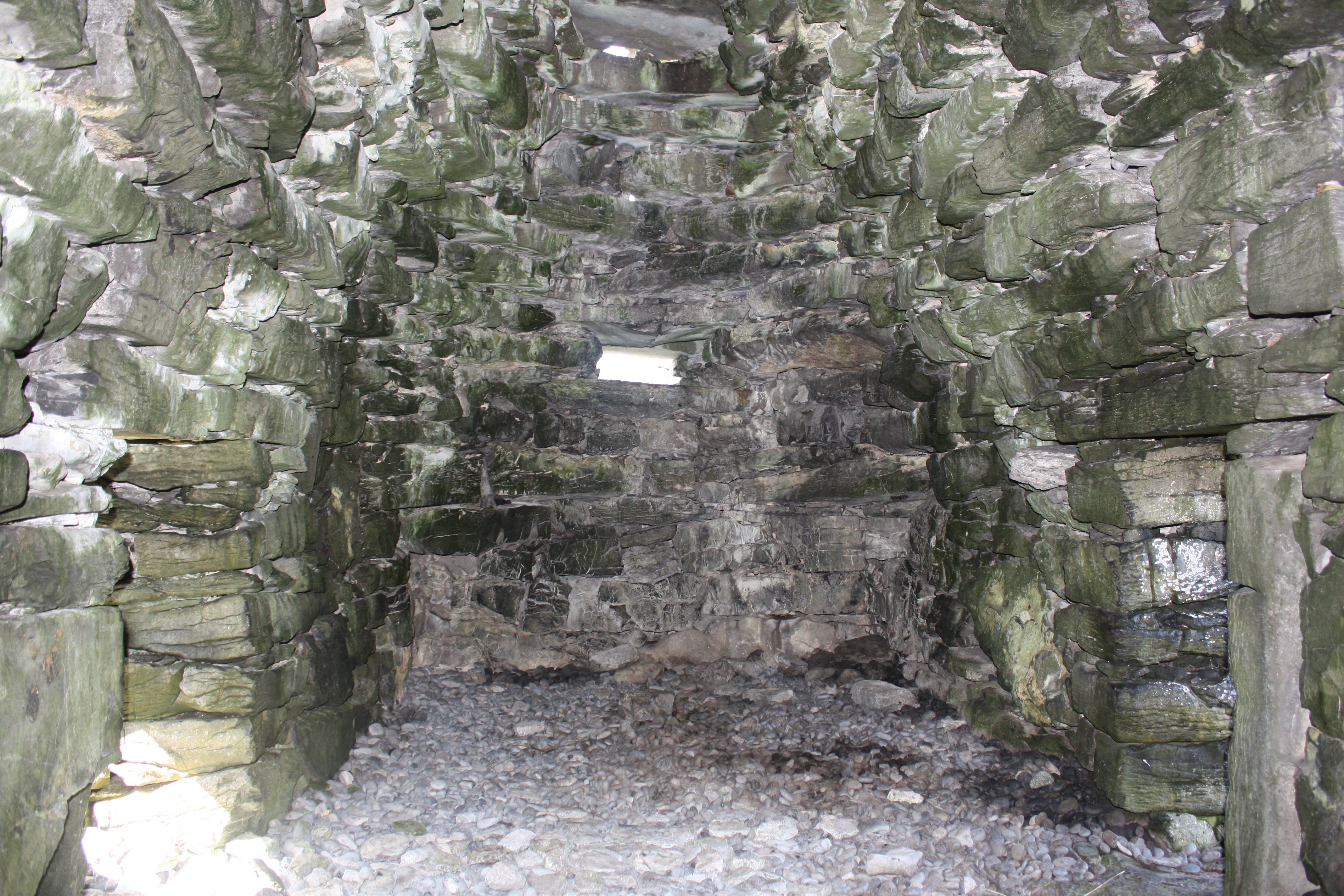 Clochan na Carraige, Inishmore